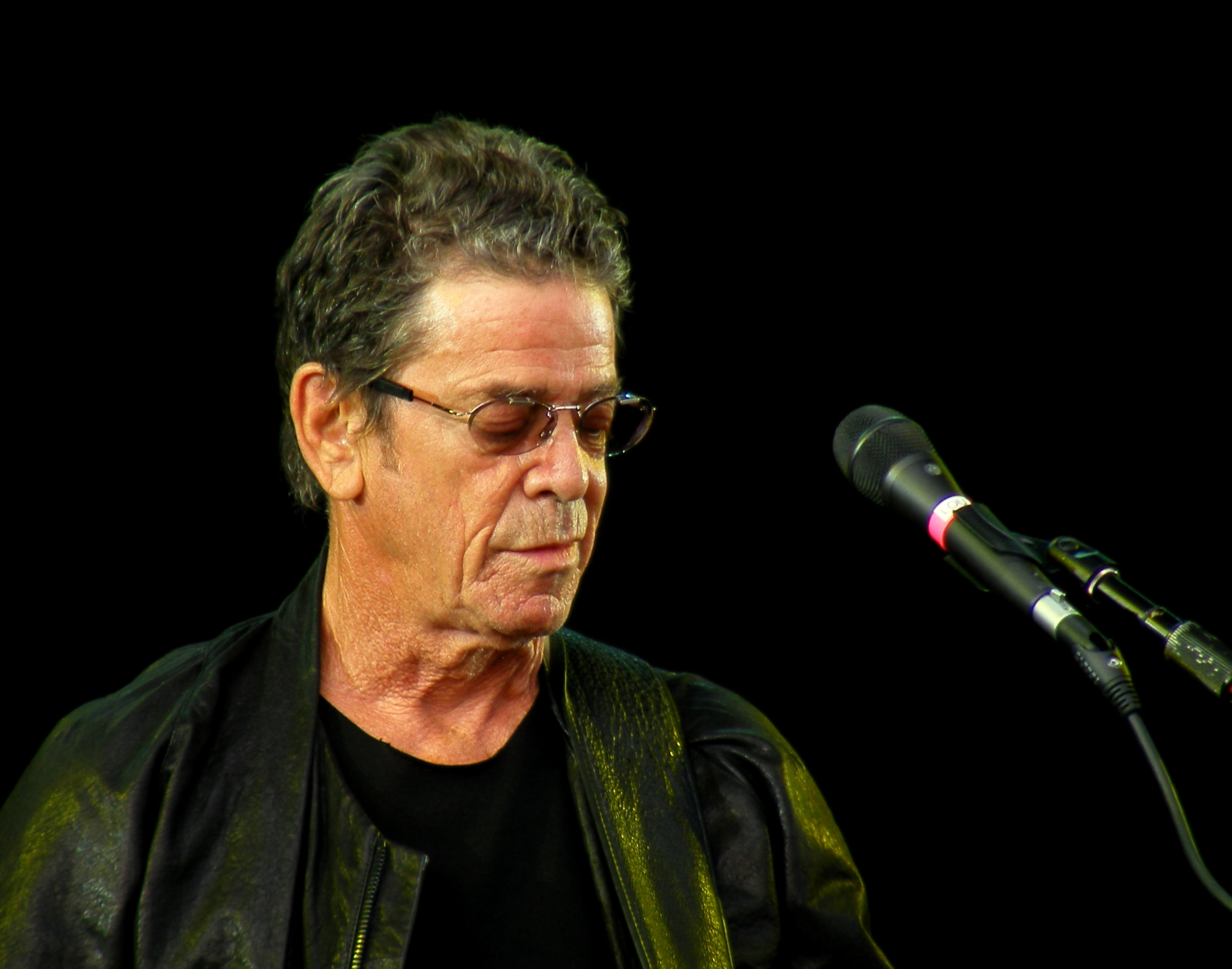 Lou Reed performing at the Hop Farm Music Festival on Saturday the 2nd of July 2011